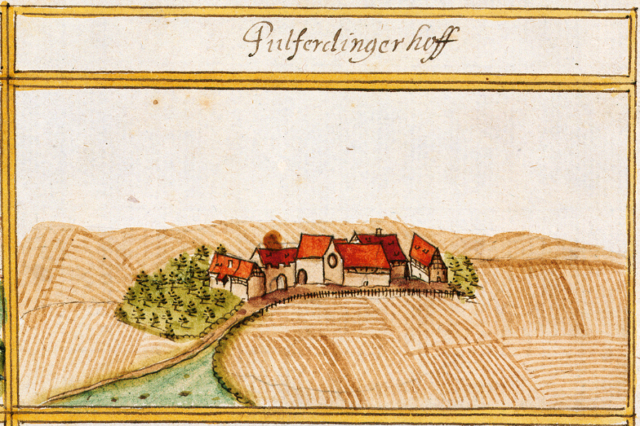 View of Pulverdingen, Enzweihingen, Vaihingen an der Enz, from the forest register books created by Andreas Kieser